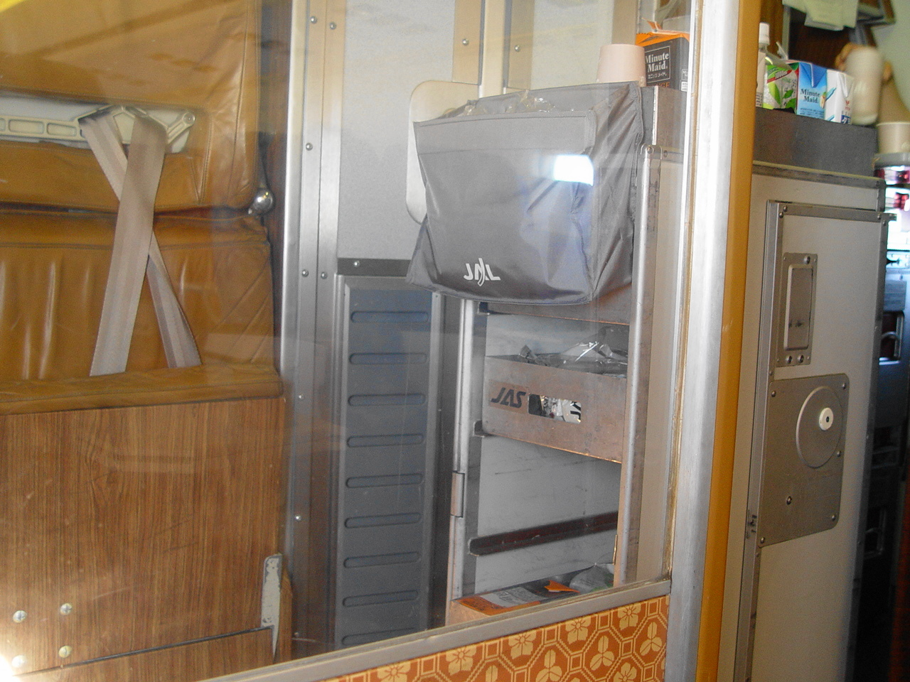 Japan Airlines MD-81 Service cart. Logo of "JAS" is left.